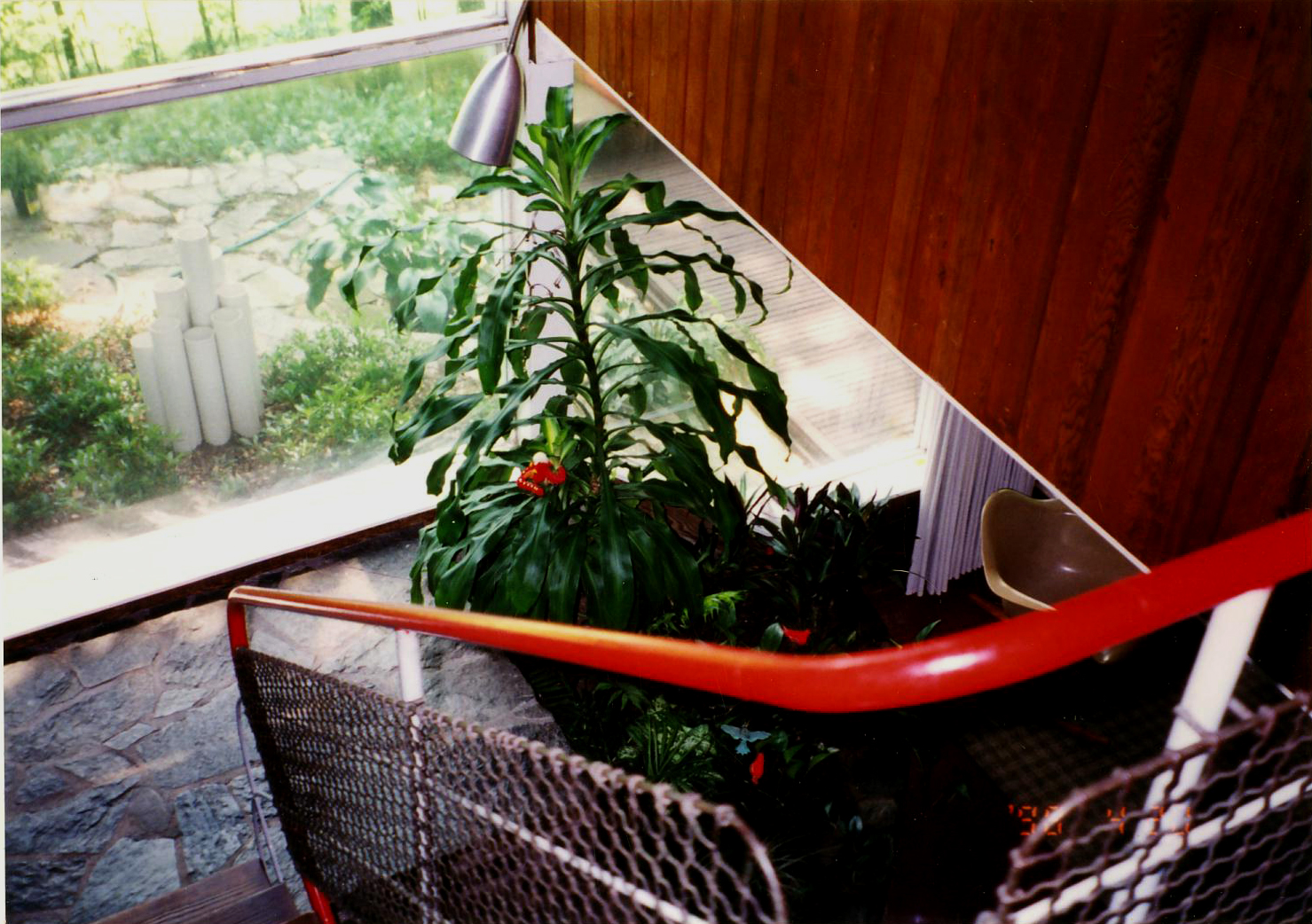 Interior of Henry F. Miller House, Orange, Connecticut